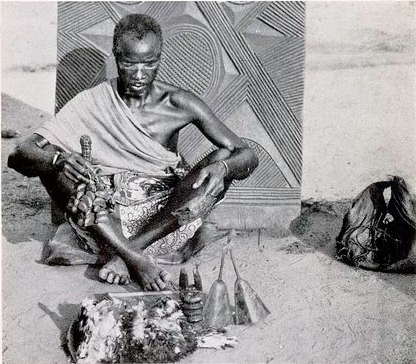 G.T Basden "A medicine man with his stock in trade"